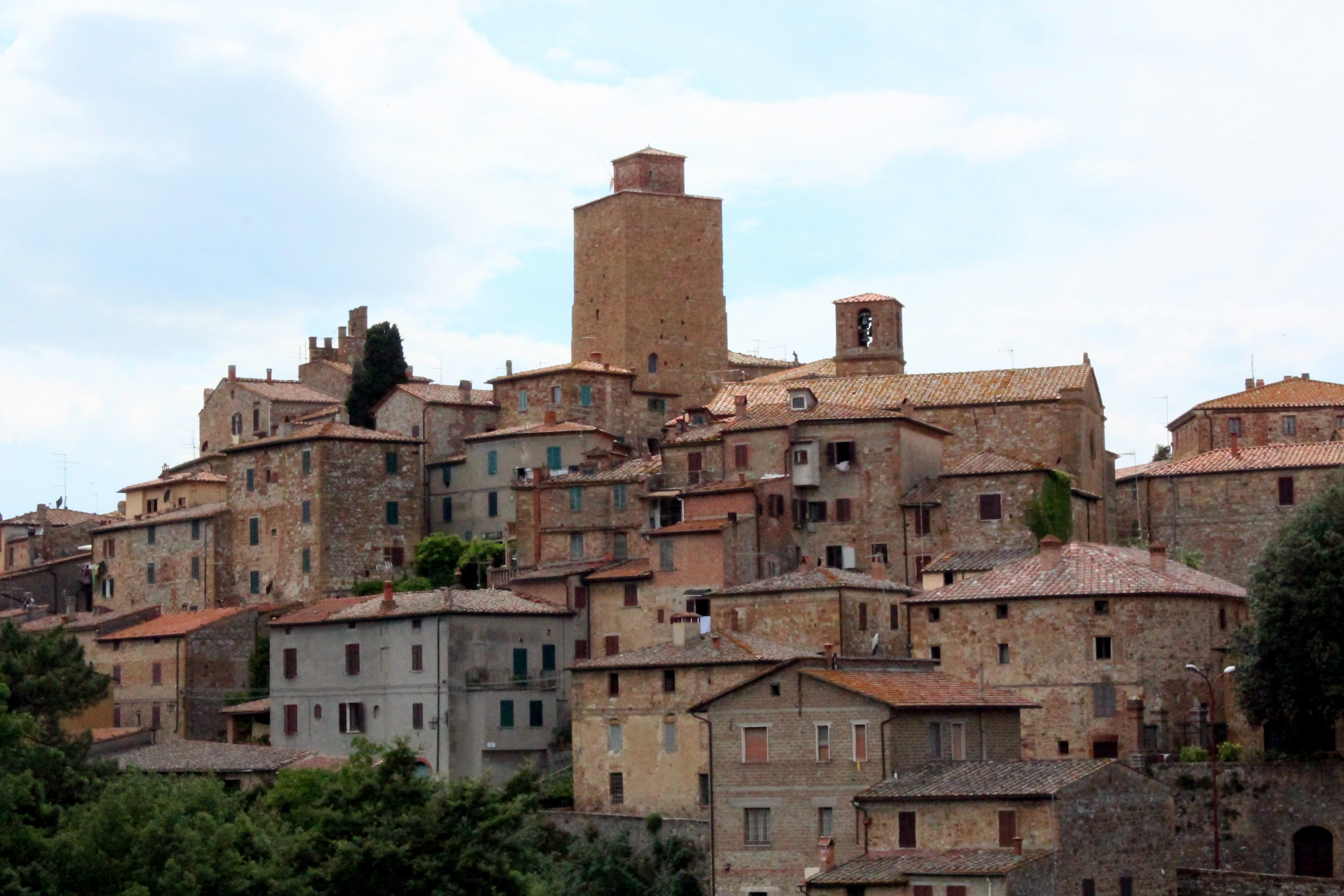 Panorama of Petroio, hamlet of Trequanda, Province of Siena, Tuscany, Italy. From left to right: Torre del Cassero, Torre Civica, Church Pietro e Paolo